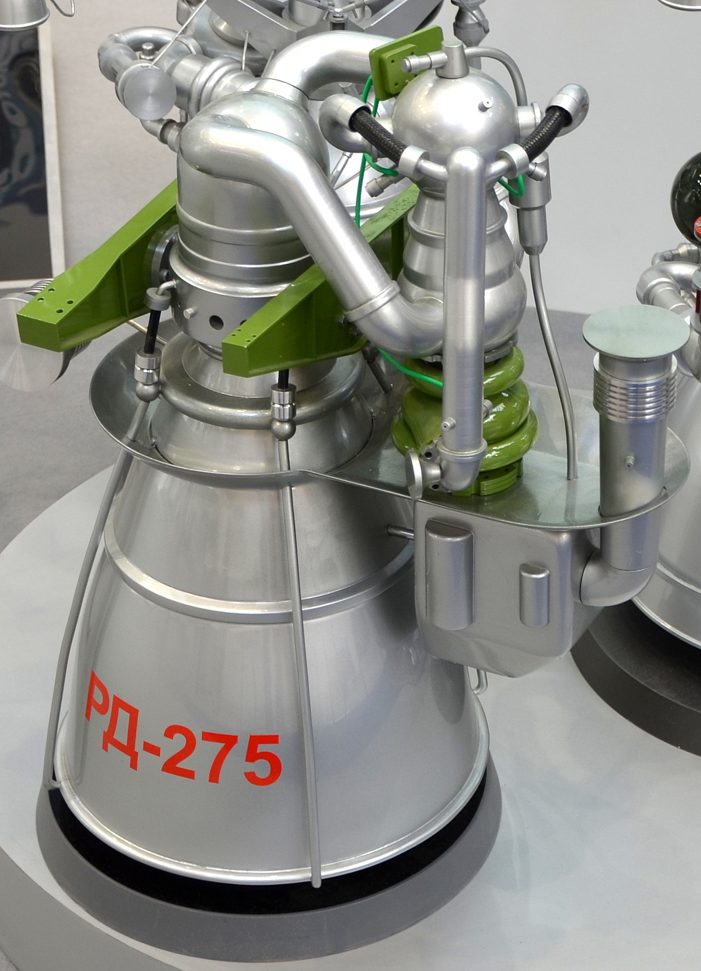 Mockup rocket motor RD-275 Salon du Bourget 2013